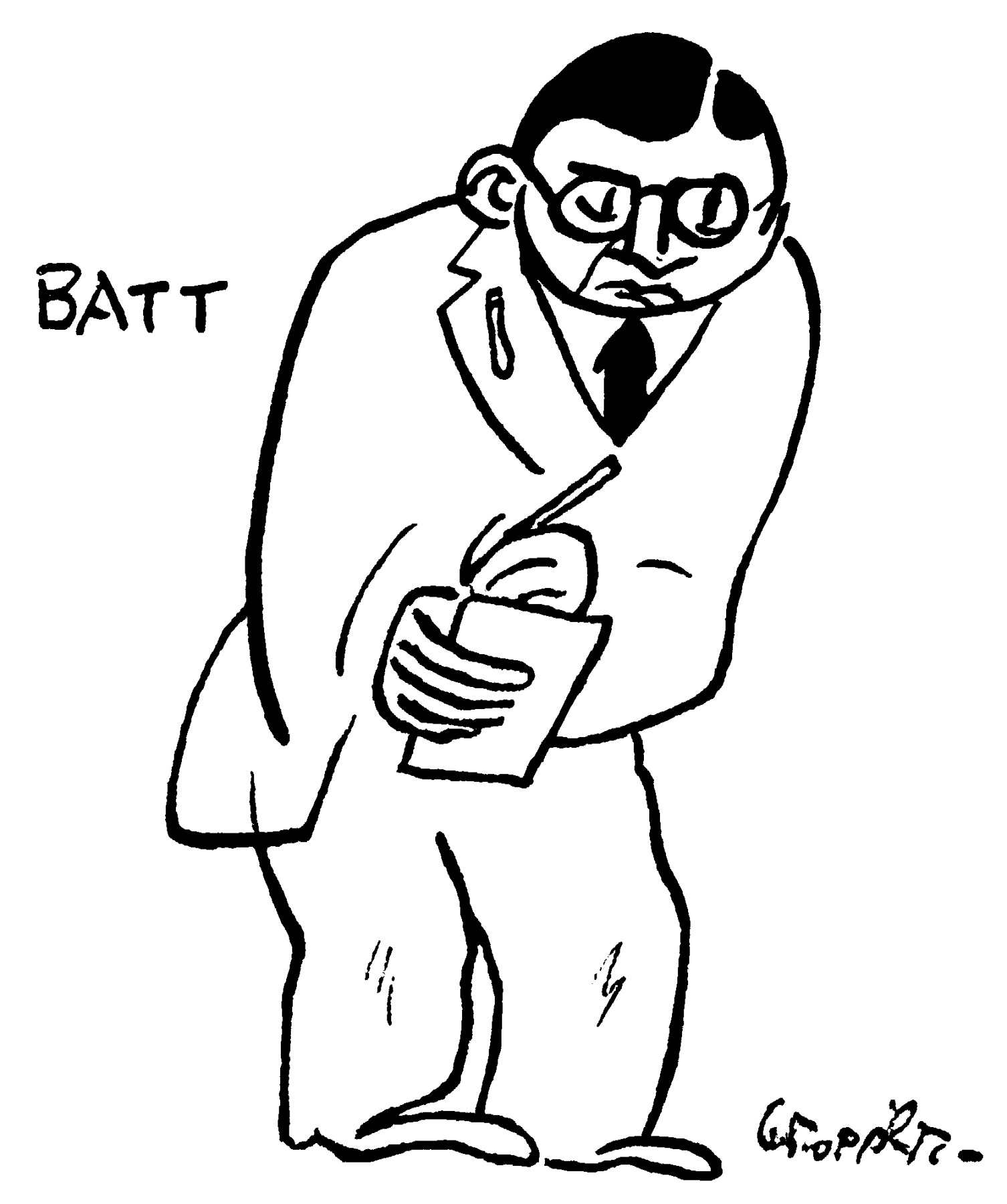 Sketch of Dennis Batt at the Workers Party of America Convention, December 1921-january 1922 by William Gropper Published in "The Worker" (New York), whole no. 204 (January 7, 1922), pg. 8.